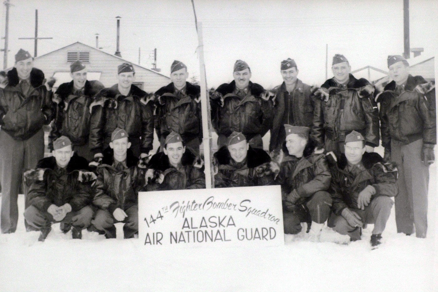 The newly designated 144th Fighter-Bomber Squadron poses for a picture during the winter of 1953. The primary mission for the 144th at the time was national air defense. Lt. Albert Kulis, whom the base was later named after, is third from the left in the front row. (176th Wing Alaska Air National Guard photo)